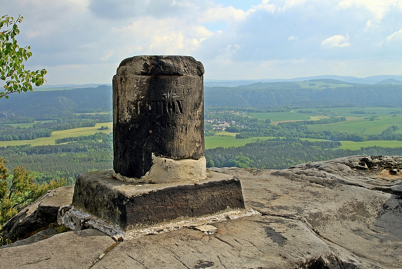 triangulation point (1865) on top of the Lilienstein (415 m) in the Saxon Switzerland.